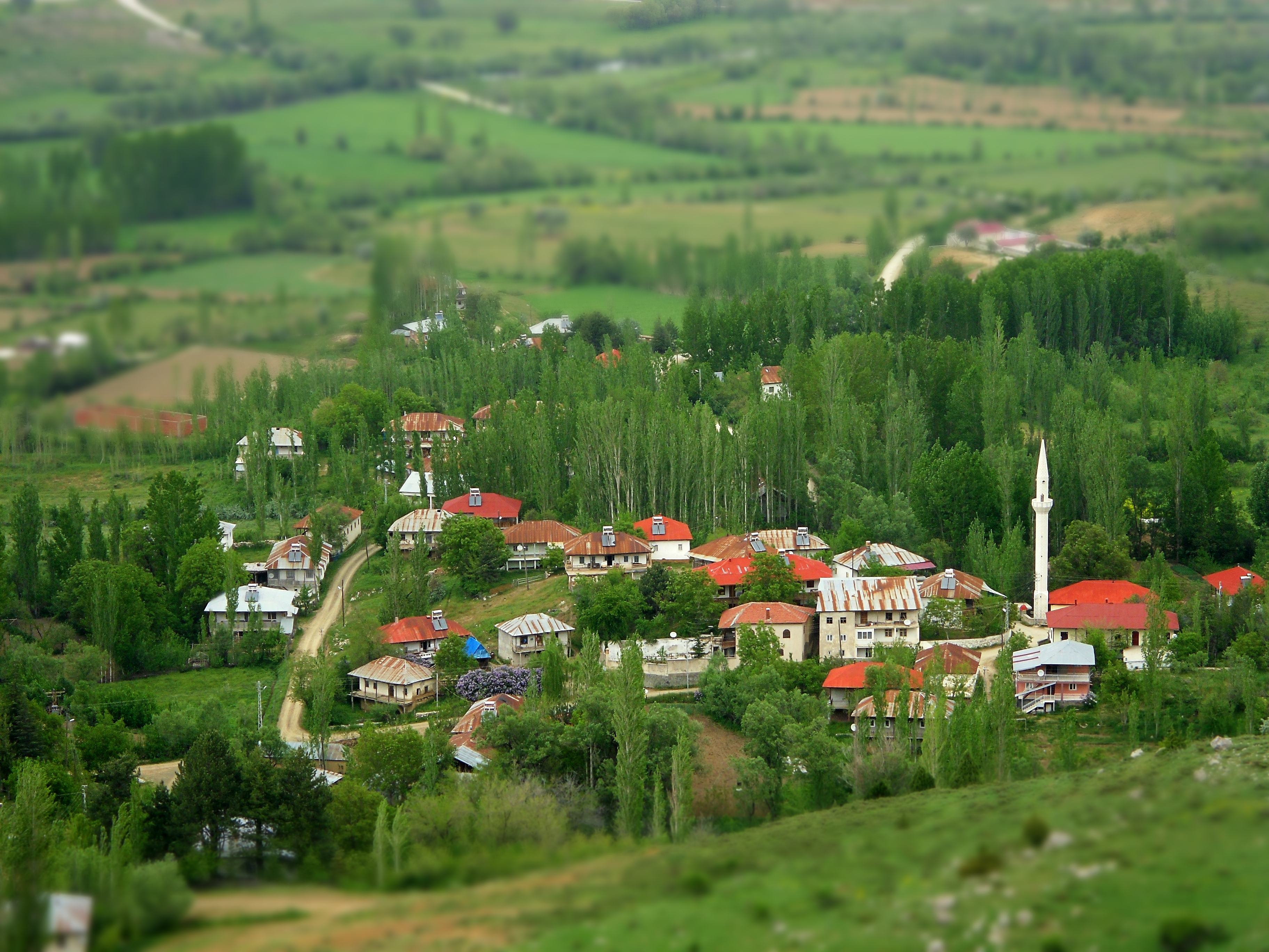 Karaahmet Village Göksun Kahramanmaraş TürkiyeTürkçe: Karaahmet Köyü Göksun Kahramanmaraş Türkiye